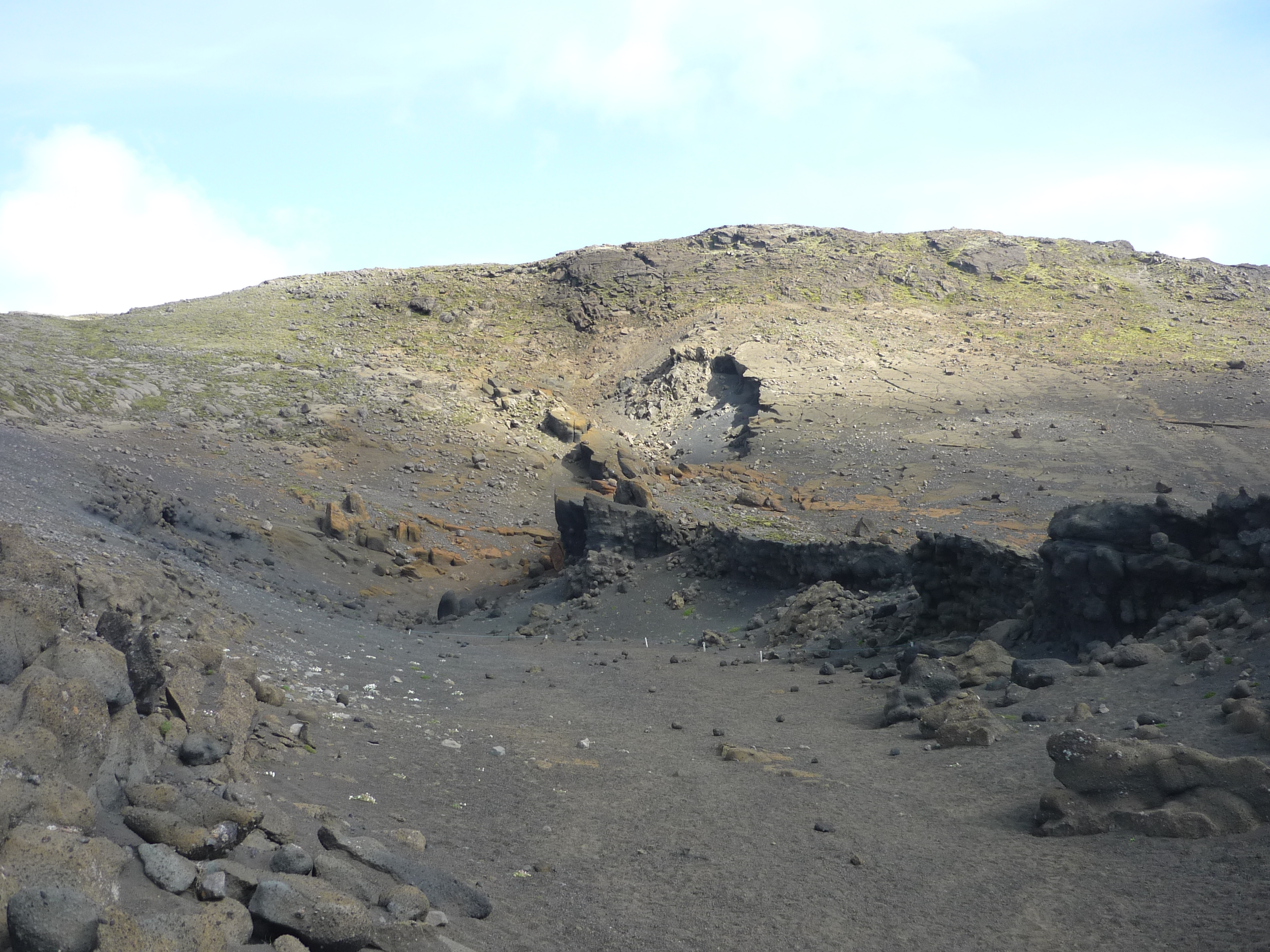 Hyaloclastite on Laki, Iceland